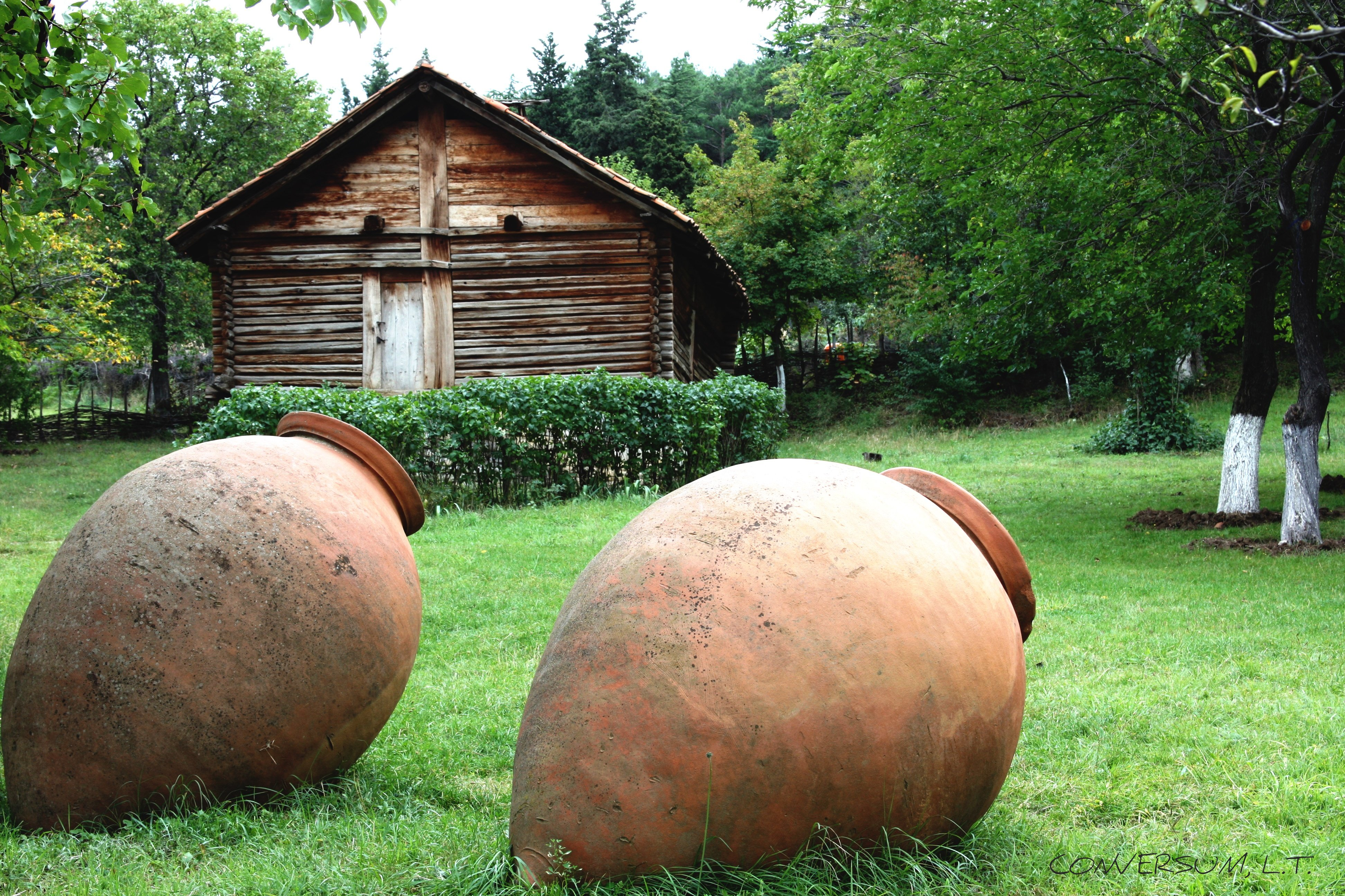 Georgian „Kvevri“ ancient wine vessel.